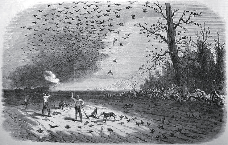 Newspaper spread originally captioned: "Shooting wild pigeons in Iowa".